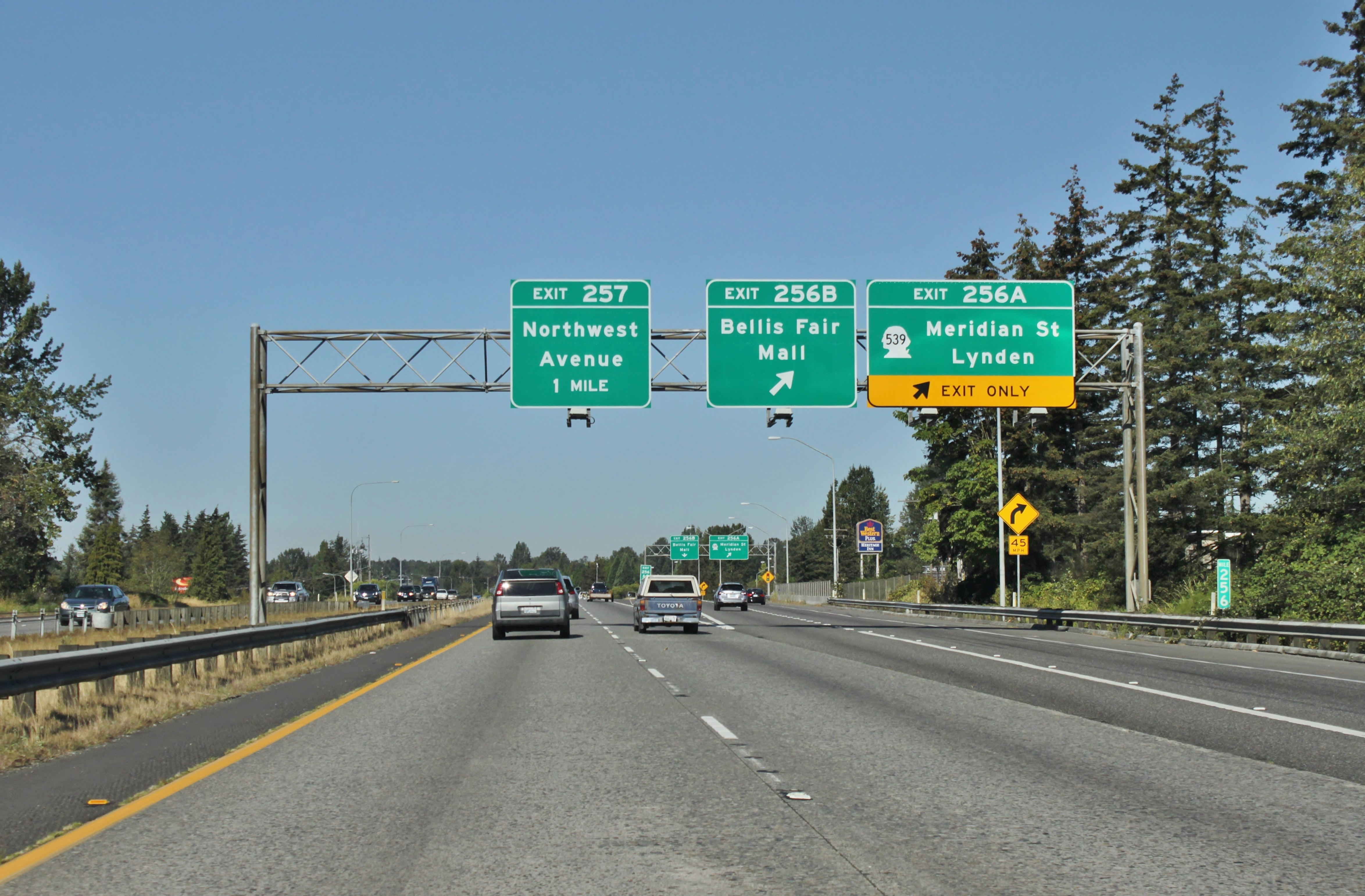 Looking northbound on Interstate 5 at its interchange with SR 539 in northern Bellingham, Washington.